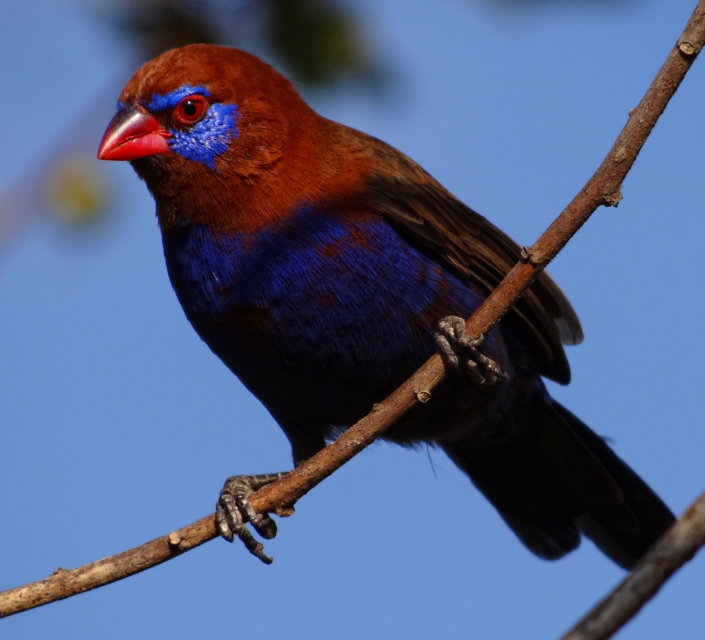 A male Purple Grenadier photographed in the wild at the Serengeti Visitor's Centre in Serengeti National Park, Tanzania.